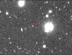 the discovery image of Psamathe (S/2003 N1) edited from another wikipedia image.